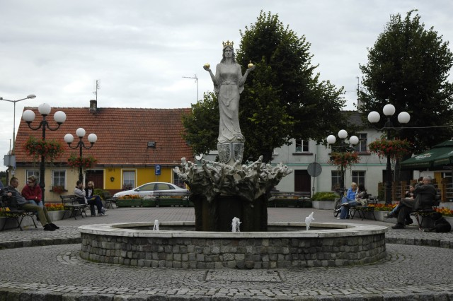 Poland, Lubniewice - fountain on main square.